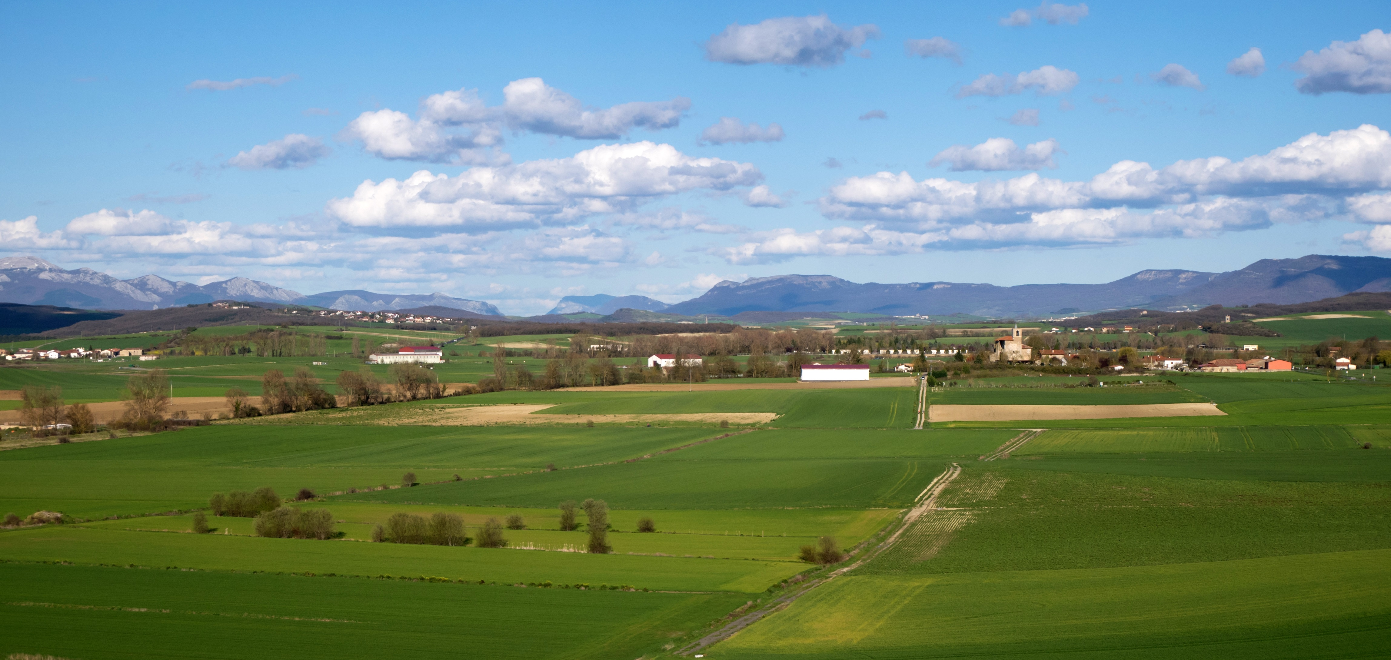 Landscape viewed from Alto de las Neveras, looking towards Otazu, on the Green Ring of Vitoria-Gasteiz. Álava, Basque Country, Spain